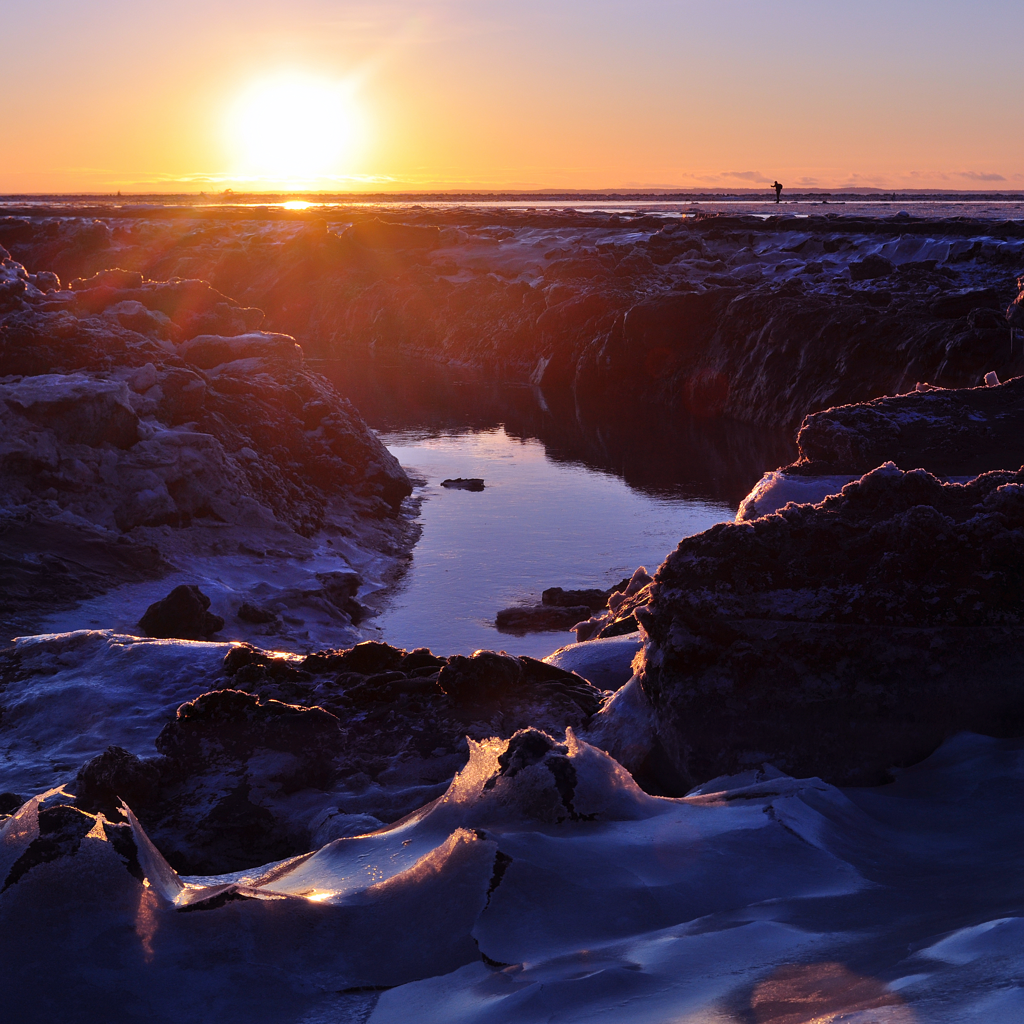 The mouth of Campbell Creek empties into the ocean through the Anchorage Coastal Wildlife Refuge. The landscape changes dramatically throughout the year with the weather and tides.